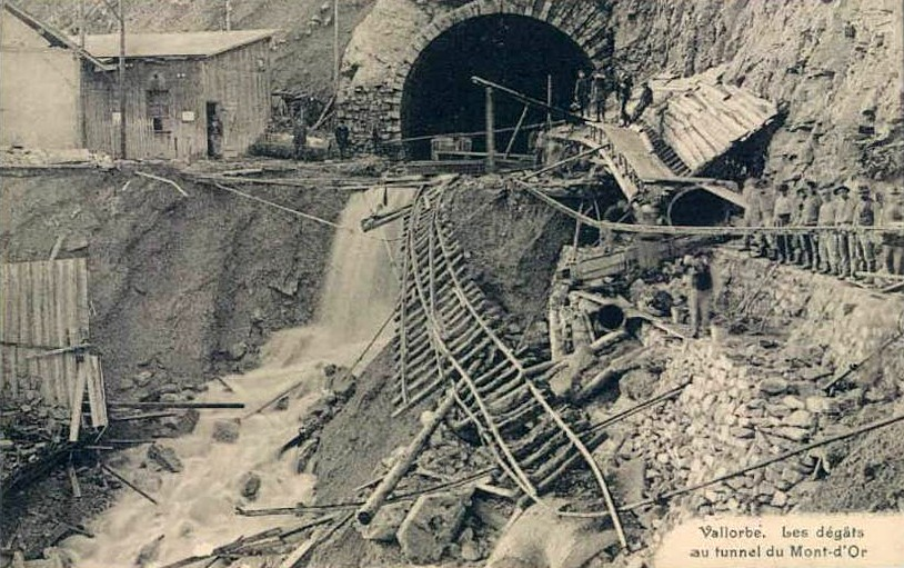 Damage to the Swiss entrance to the Mont d'Or Tunnel following the sudden water ingress on 23 December 1912 during work in the tunnel.